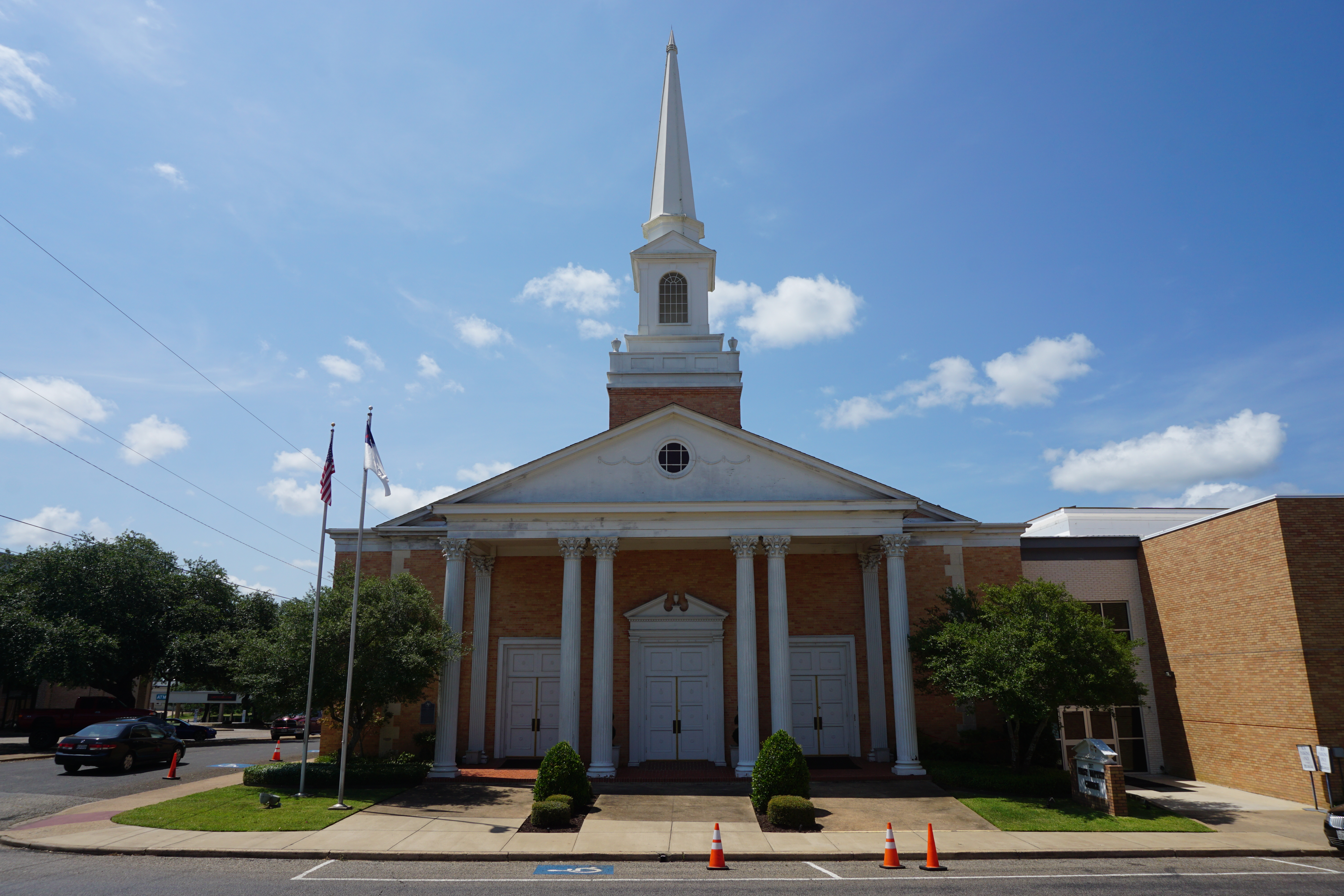 First Baptist Church in Henderson, Texas (United States).